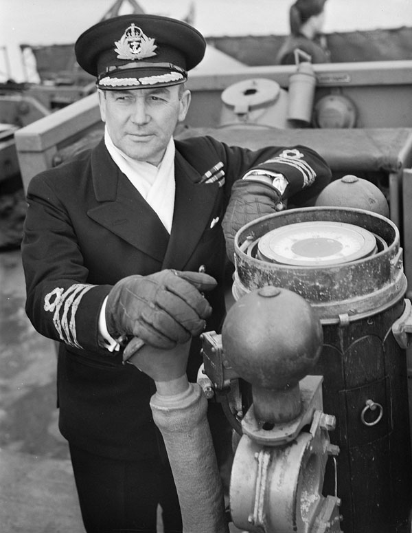 Commander Clarence A. King, D.S.O., D.S.C., Commanding Officer of the frigate HMCS Swansea, on Swansea's bridge at sea.